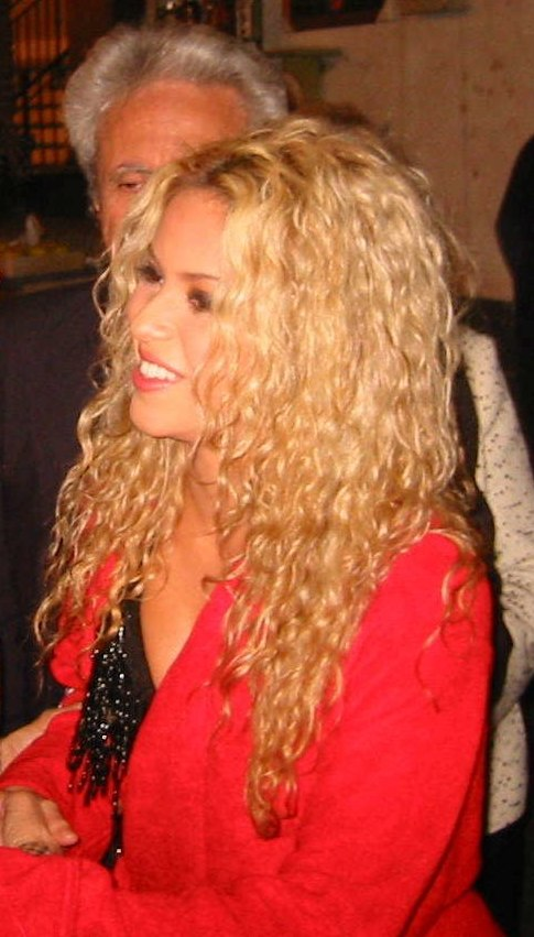 Shakira on Tour of the Mongoose.